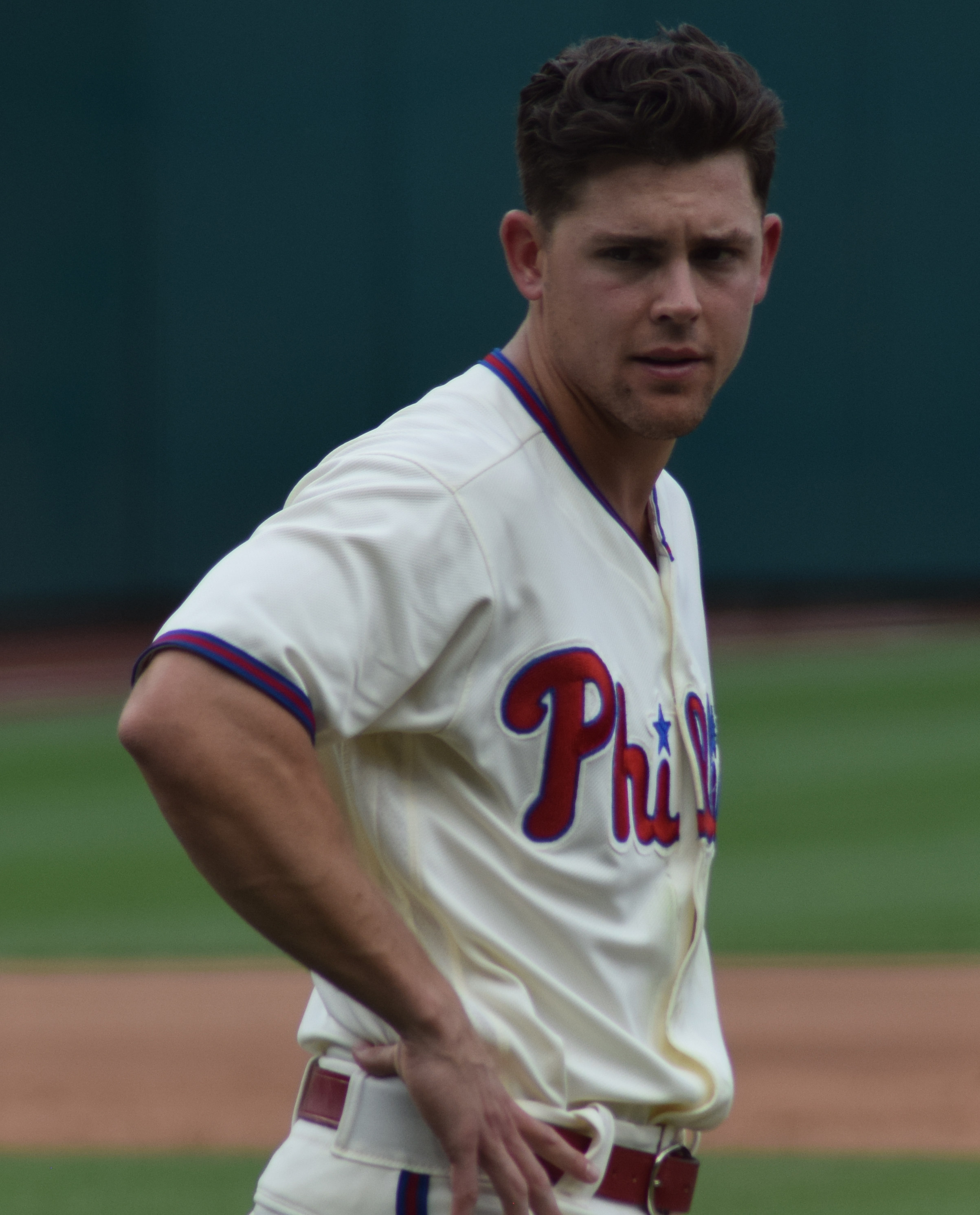 Phillies infielder Scott Kingery